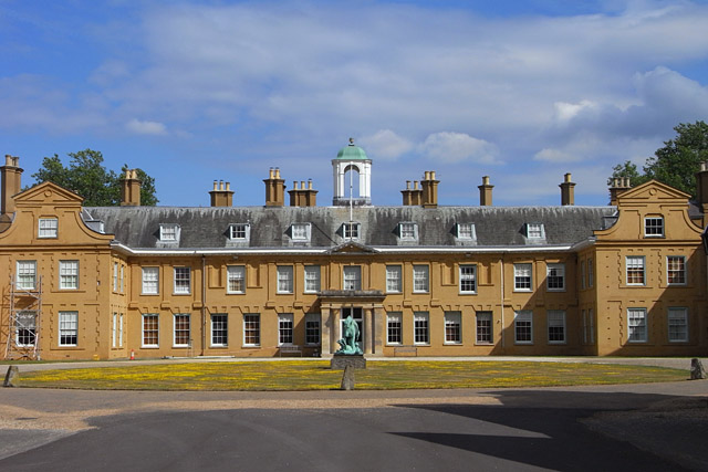 Stratfield Saye House. Showing the western side of the house, the original parts of which date from about 1630. It was stuccoed in the 1700s. It was bought by the nation for the first Duke of Wellington in 1817, two years after his victory at Waterloo. The statue in front can be seen here 1420486 . For a closer view see 1423270.